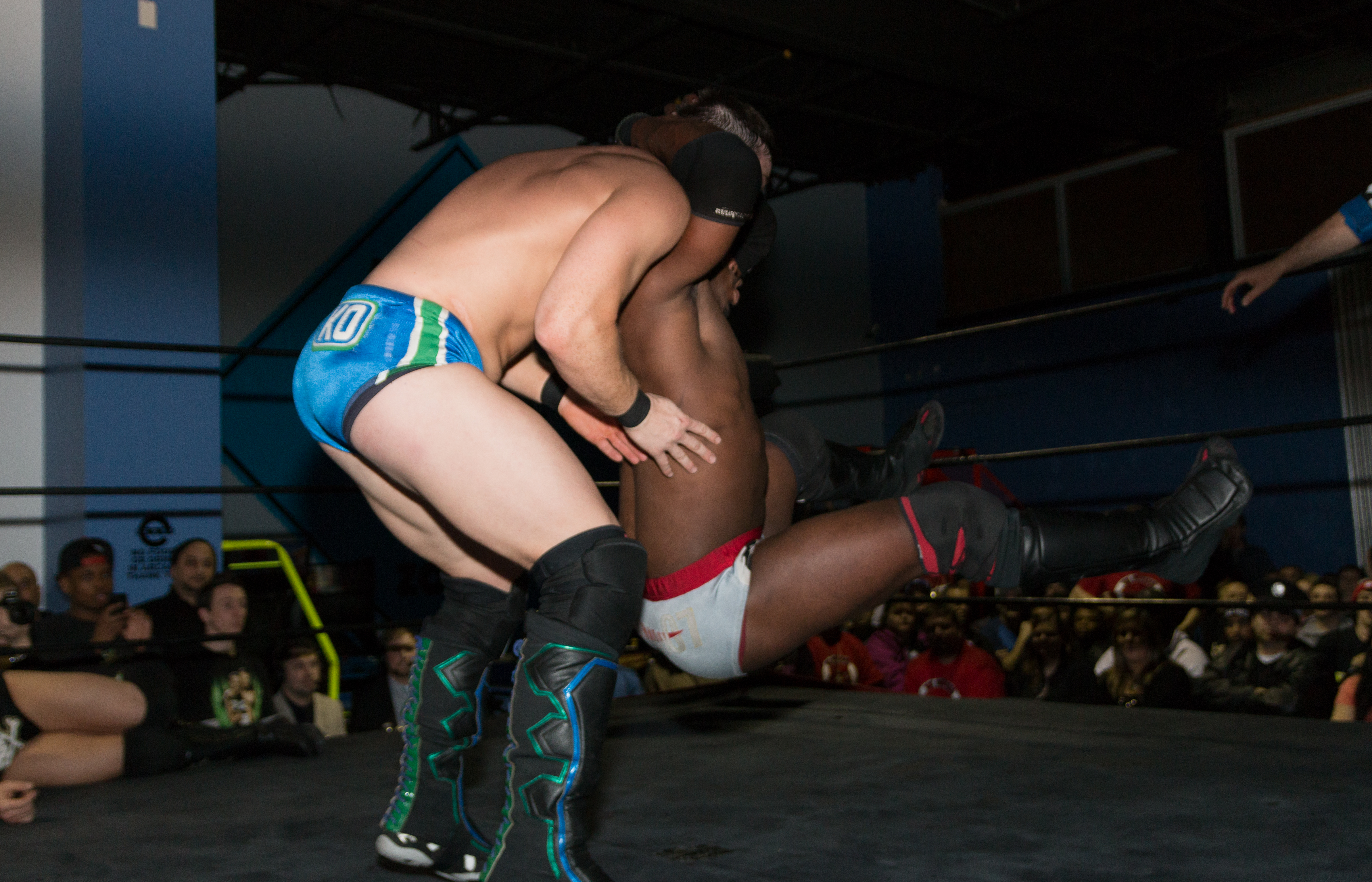 Independent wrestler ACH (right, in grey trunks) hitting a stunner on Kyle O'Reilly at a Smash Wrestling show in Etobicoke, ON